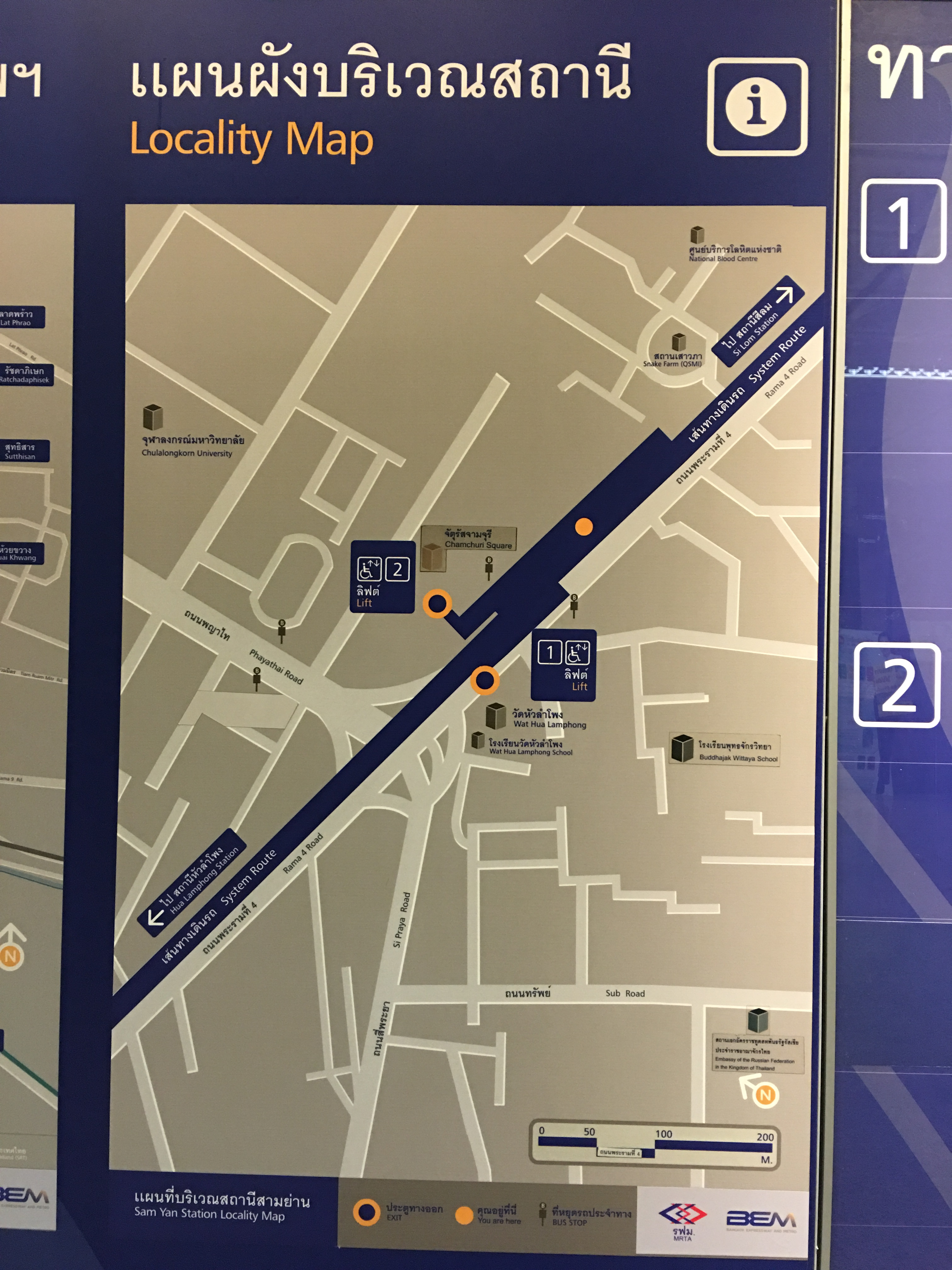 The locality map of Sam Yan Station